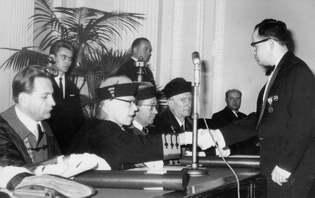 To the right János Julesz, to the left Ferenc Márta, Károly Tóth, Ferenc Szontágh, György Kedvessy, Pál Losonczi